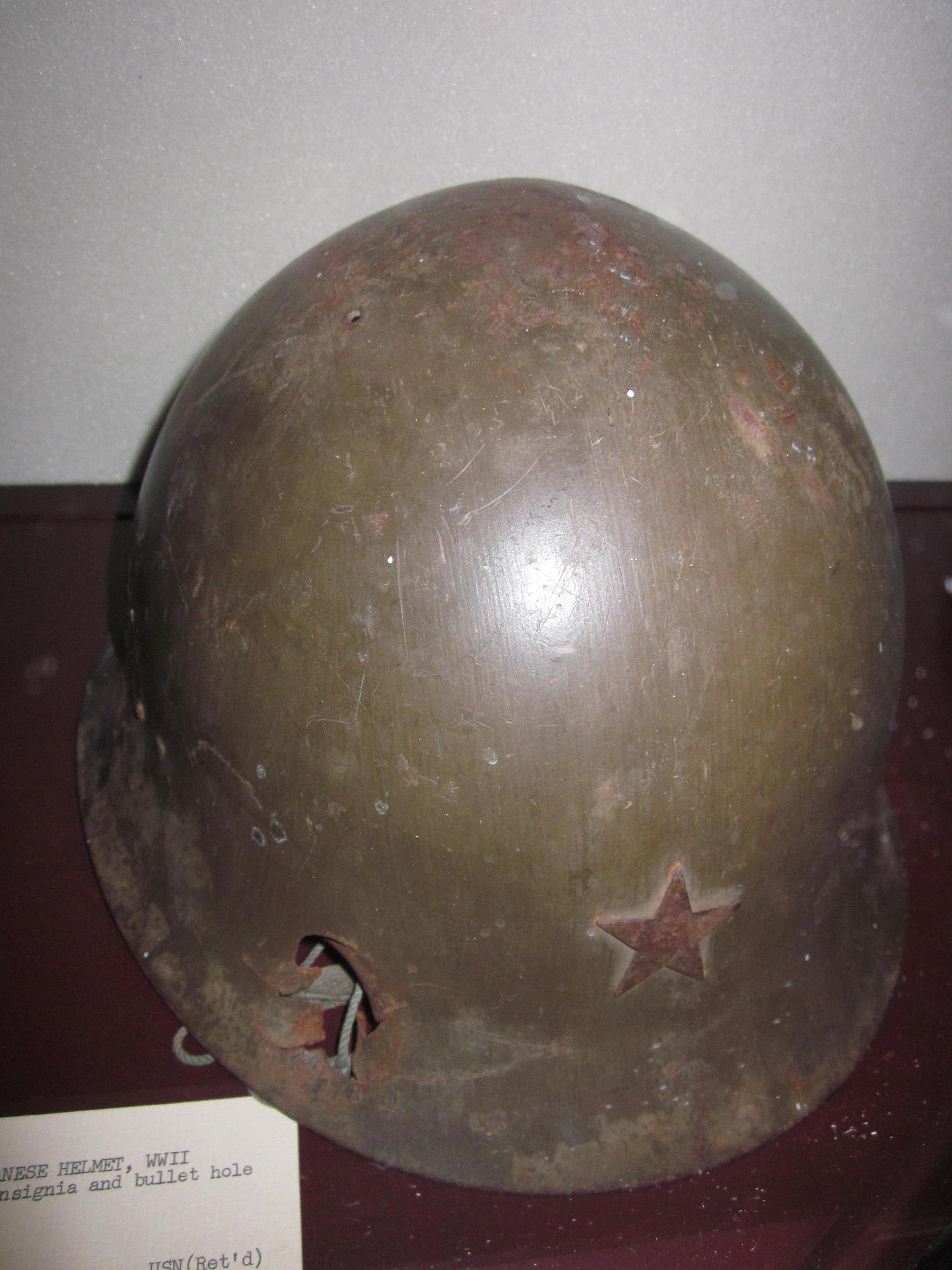 A World War II Imperial Japanese Army helmet on display at the Marines' Memorial Hotel in San Francisco, California.